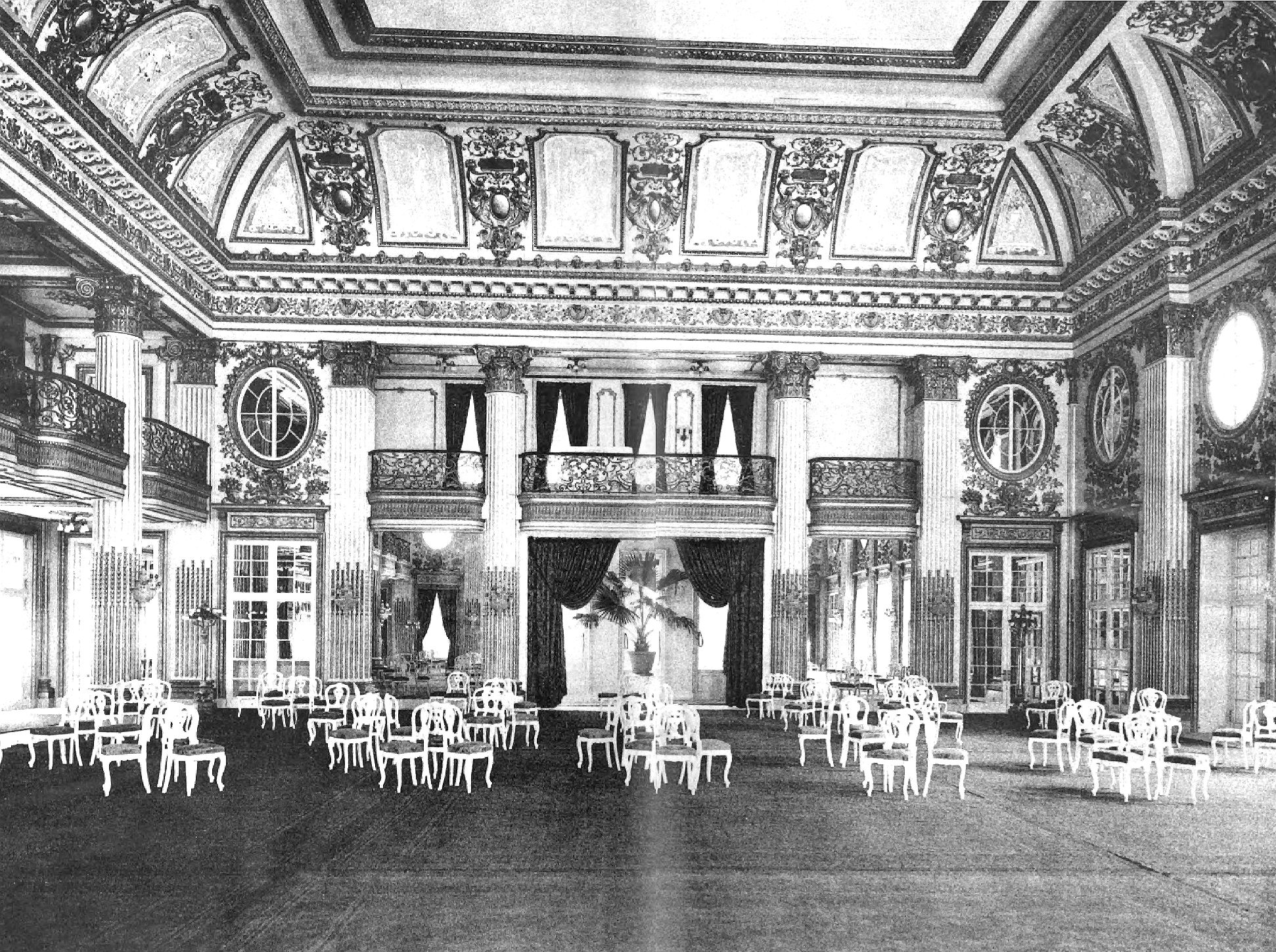 Photo of the ballroom at Sherry's (Louis Sherry) restaurant in 1898.